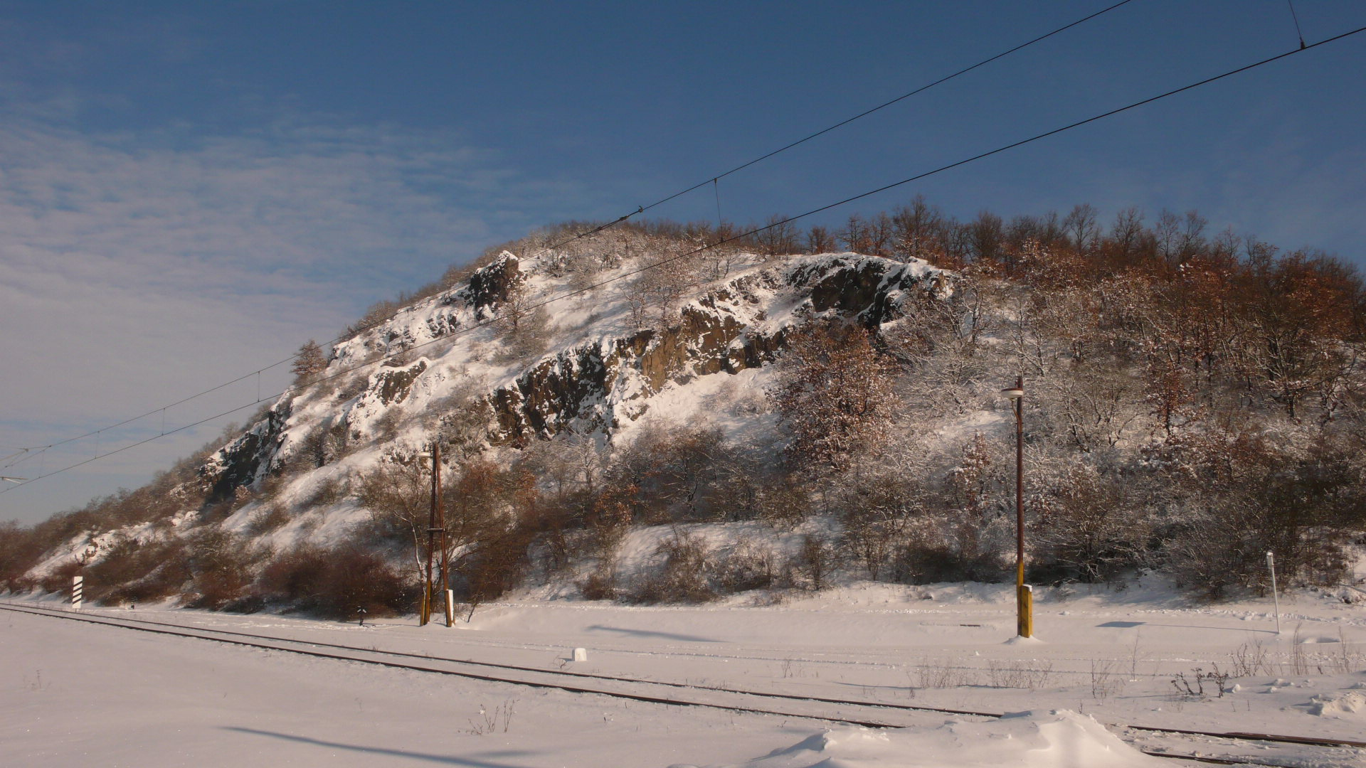 Hill Kusa Hora, Tlmace